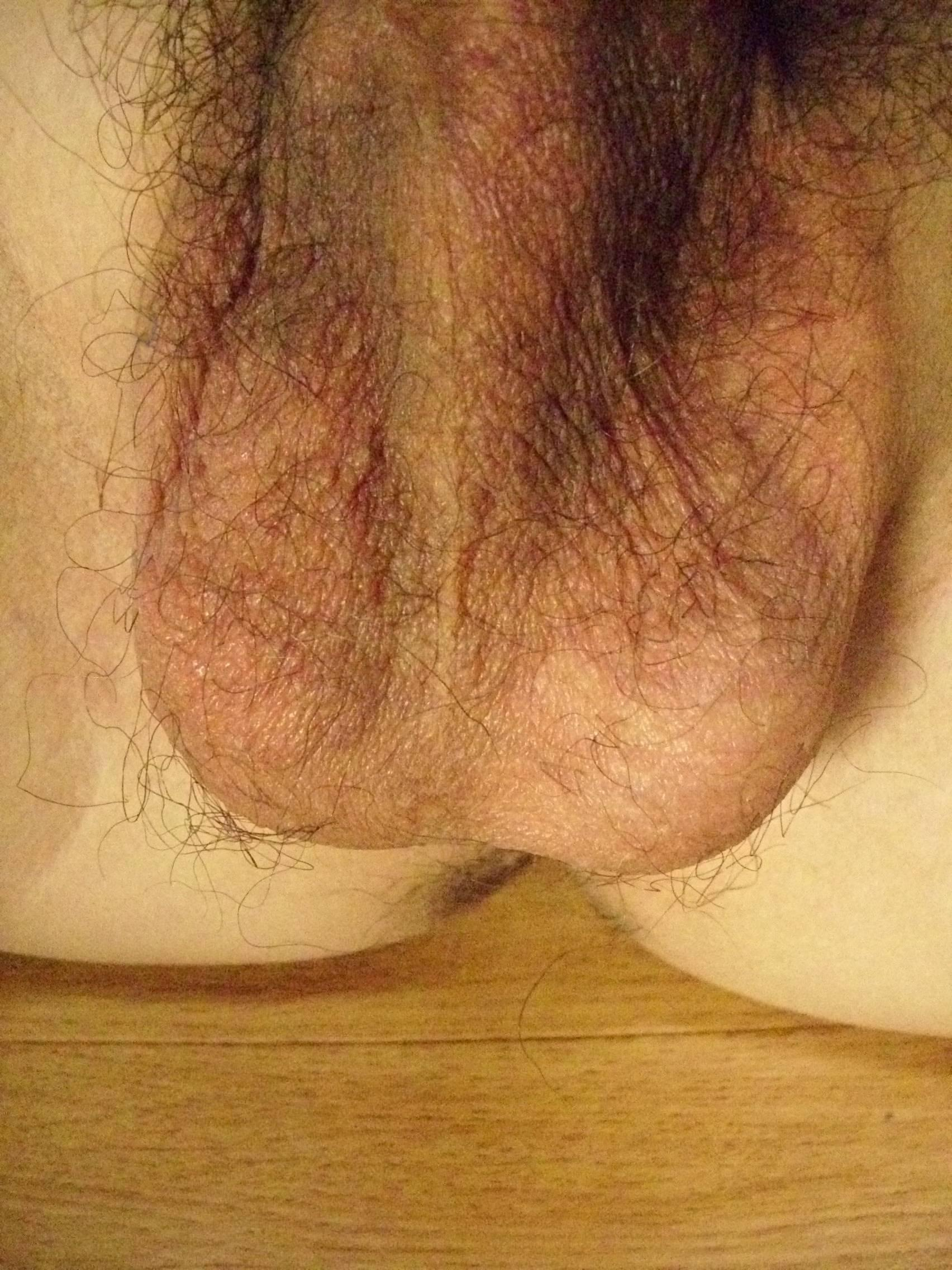 This photo shows an asian male's scrotum relaxed.